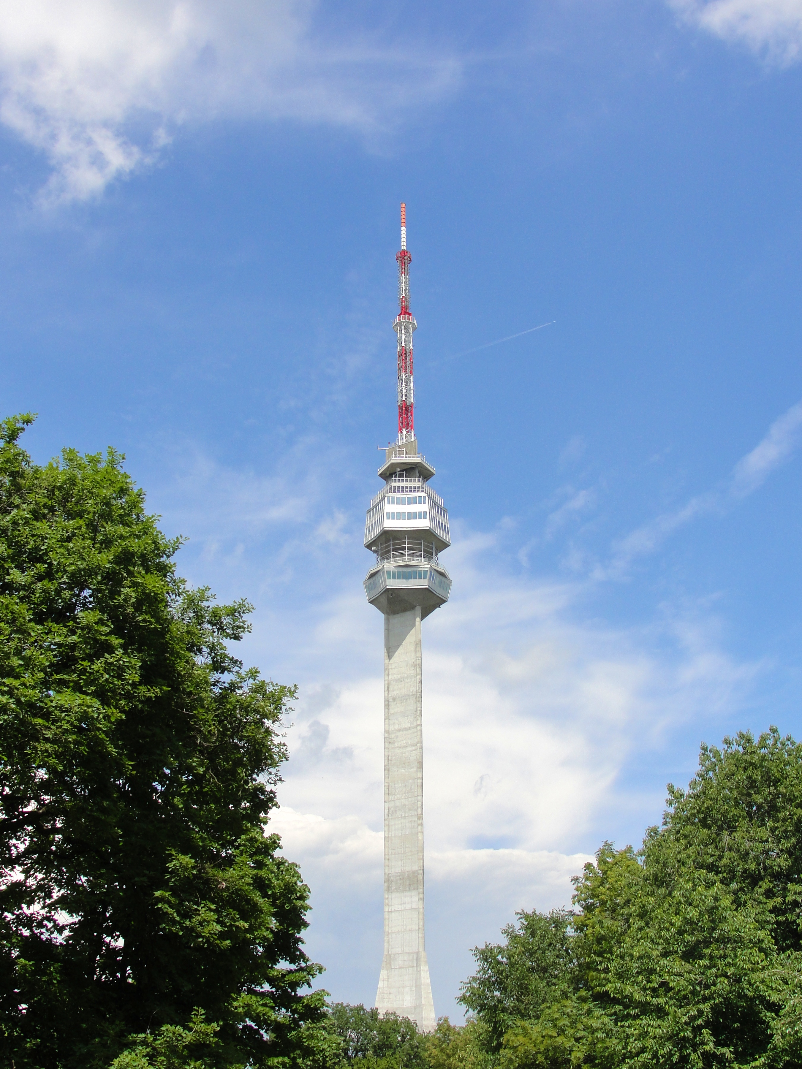 The Avala TV Tower (Serbian: ??????? ????? / Avalski toranj) is a 205 m tall telecommunication tower located on Avala mountain near Belgrade, Serbia. It was destroyed in NATO bombardment of Serbia on 29 April 1999. On 21 December 2006, the reconstruction of Avala Tower commenced and was finished on 22 October 2009.